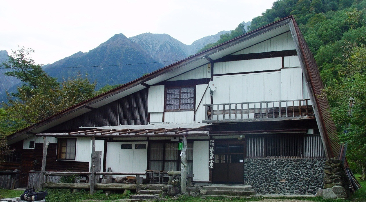 Huts_Hotakataira in Hida Mountains, Japan.